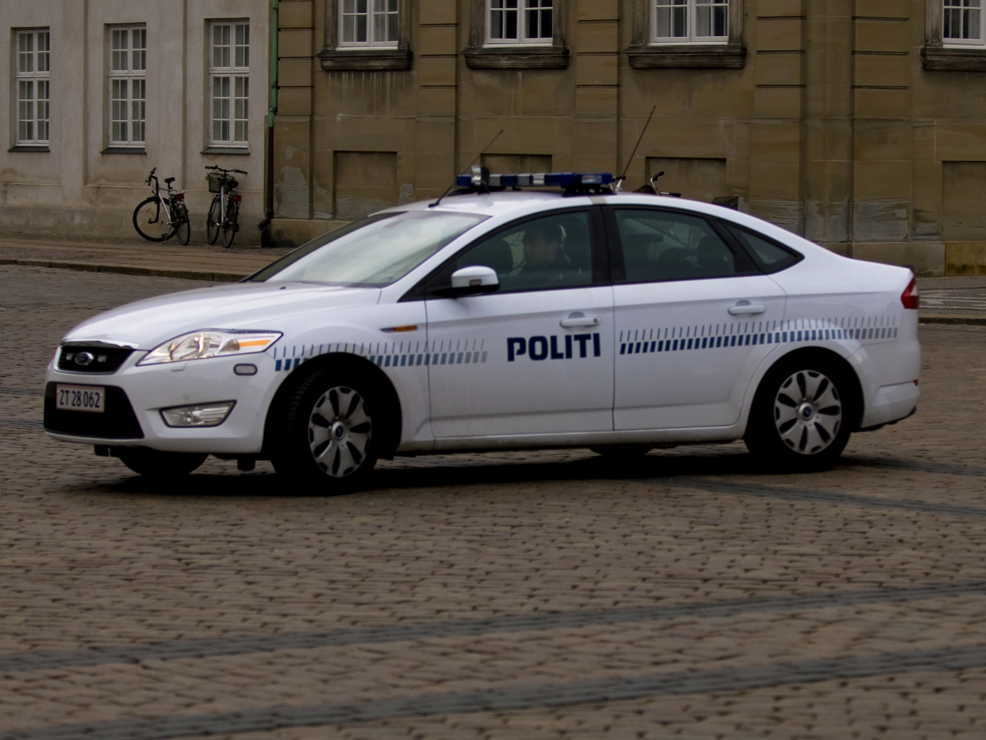 Danish police Ford Mondeo at Amalienborg Palace